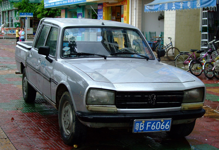 Peugeot 504 four-door crew cab pickup in Tangxia Town, Dongguan City, Guangdong China